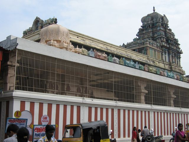 The Hanuman Temple at Nanganallur, Chennai. Own work, Licensed as attribution, sharealike.